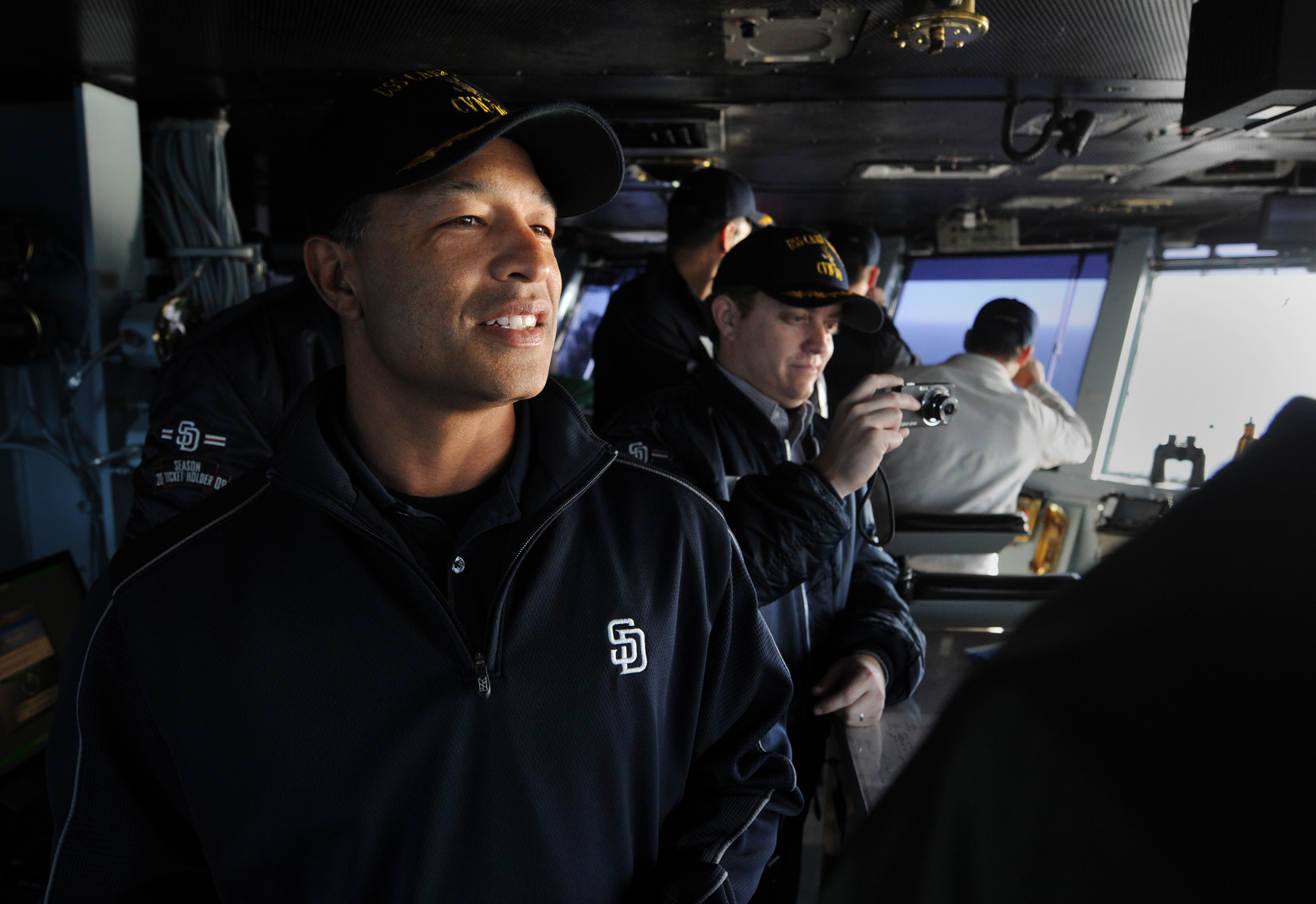 Former center fielder for the Boston Red Sox and current first base coach for the San Diego Padres, Dave Roberts, observes flight operations from the Primary Flight Control tower onboard USS Carl Vinson (CVN 70) during a tour of the ship. Carl Vinson and Carrier Air Wing (CVW) 17 are currently on a three-week composite training unit exercise (COMPTUEX) followed by a western Pacific deployment.